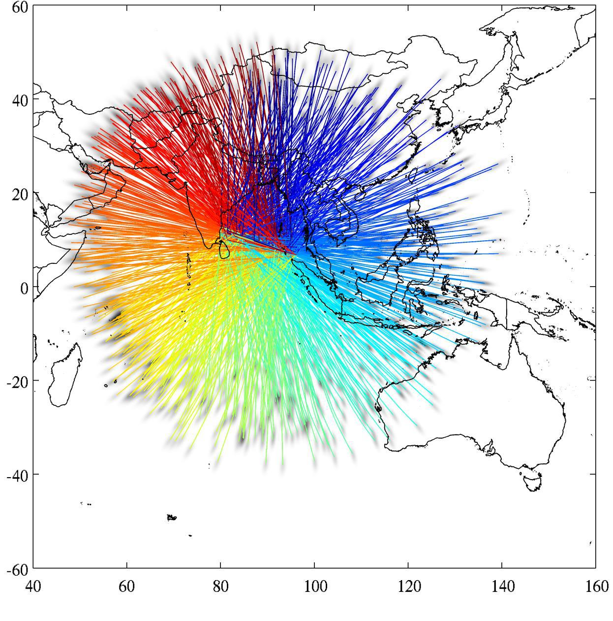 Map of predicted BFO values for 1000 flight paths originating near the location where Malaysia Airlines Flight 370 disappeared. These values were compared with the values recorded from Flight 370 and therefore determine which direction Flight 370 was traveling in relation to the Inmarsat-3 F1 satellite. A graph of these values and comparison to the values from Flight 370 is found in this file: File:MH370 Predicted BFO comparison 2.jpg.